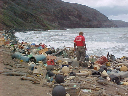 Marine debris on a Hawaii beach.